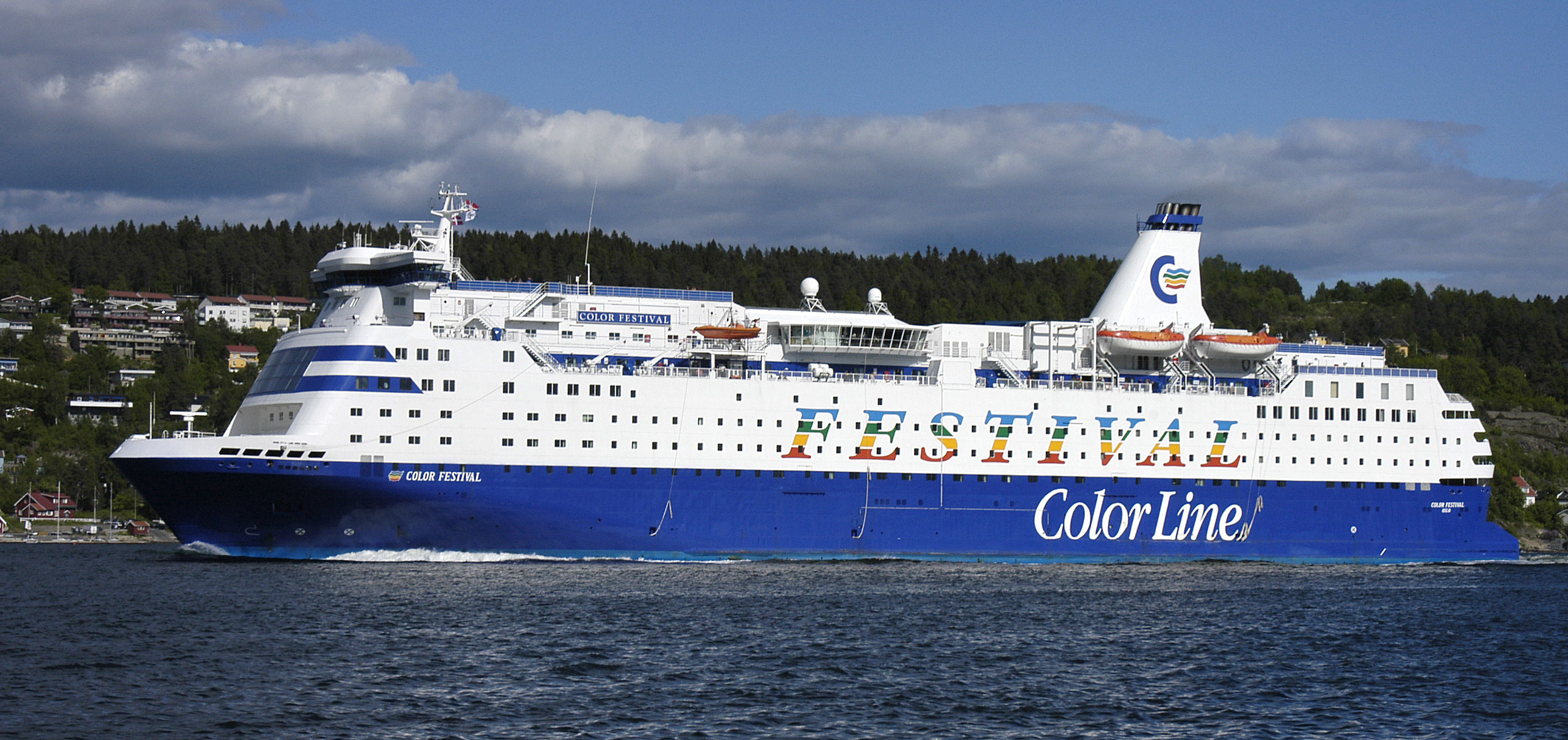 The ColorLine cruiseferry Color Festival cruising past the Drøbak Sound and up the Oslo Fjord.